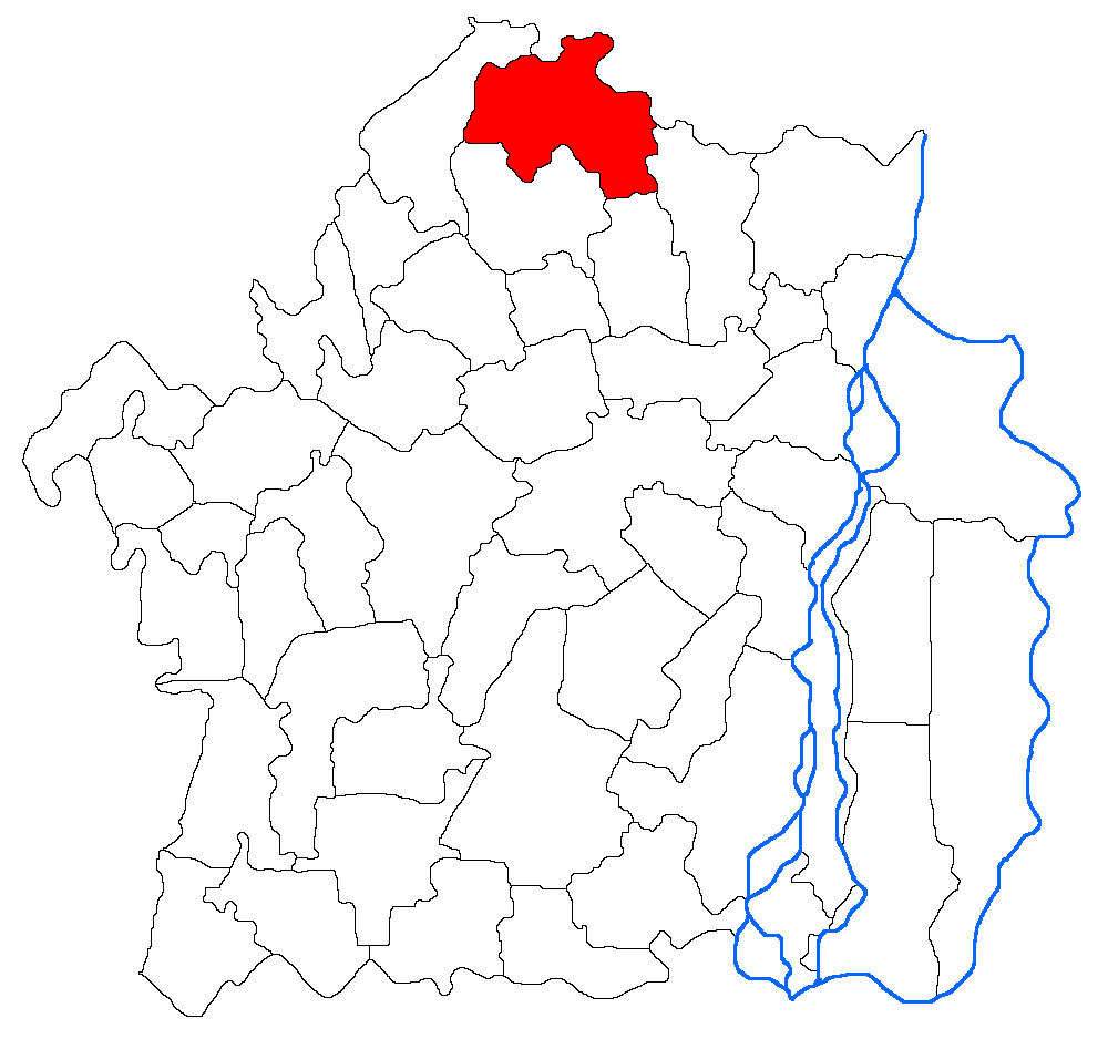 Limits of the commune of Măxineni in Brăila County, Romania